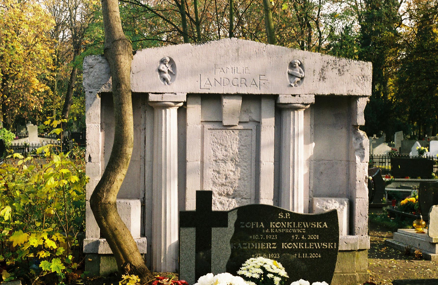 Toruń, Poland, St. George cemetery, Landgraf family monument.